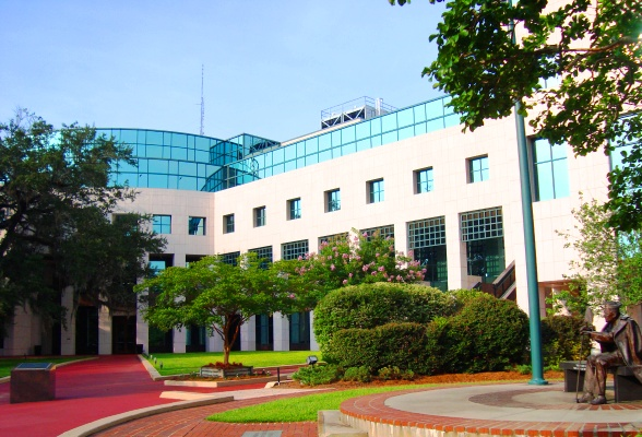 Leon County Courthouse in Tallahassee Florida